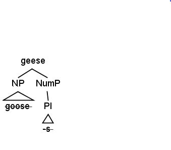 “geese” can lexicalise “NP goose + NumP plural”, through Phrasal Lexicalisation